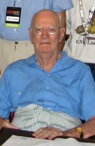 Arthur C. Clarke, science fiction author, meeting with fans, at his home office in Colombo, Sri Lanka.